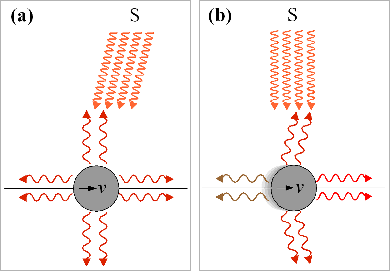 Drawing to illustrate the Poynting-Robertson effect